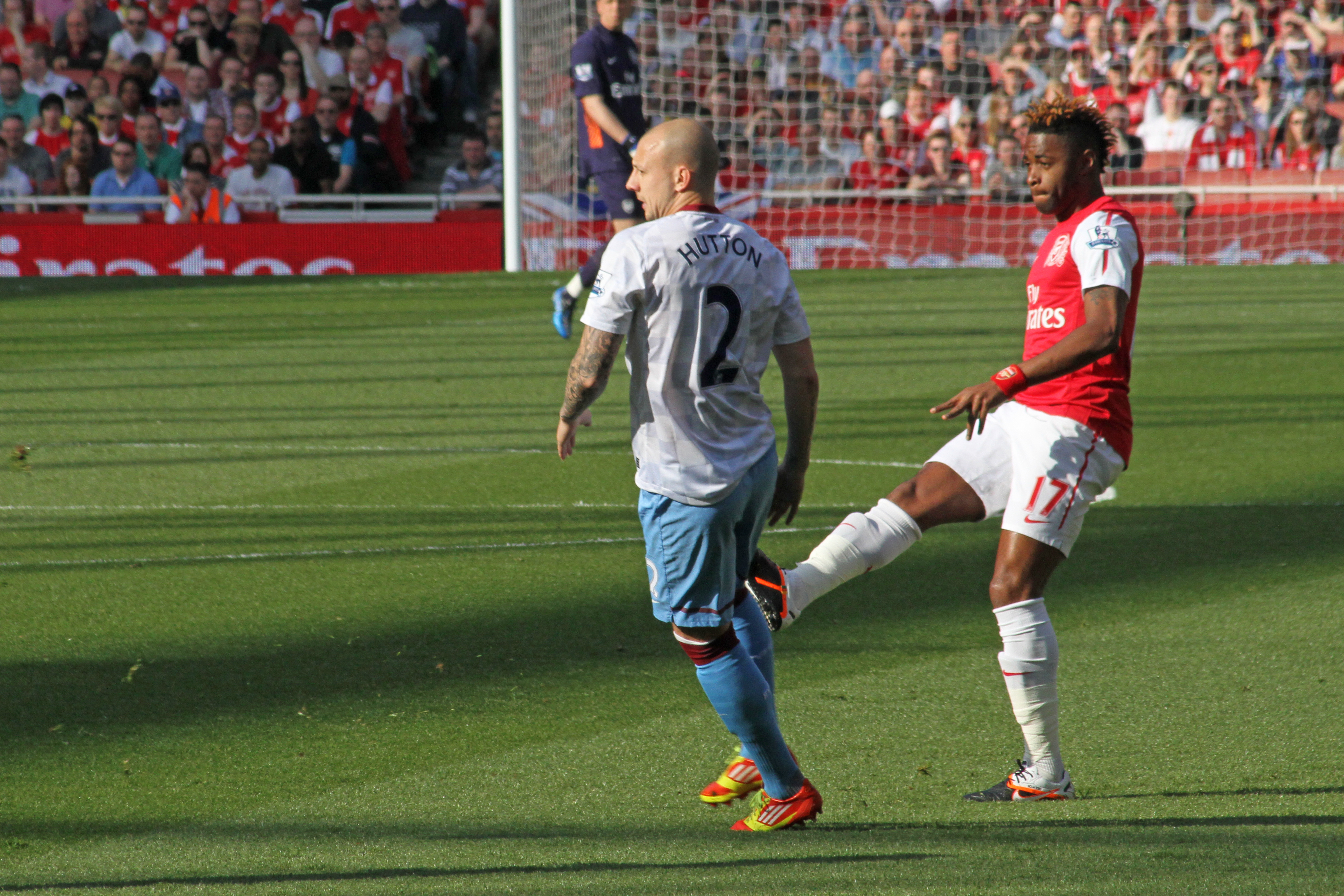 Alan Hutton and Alex Song